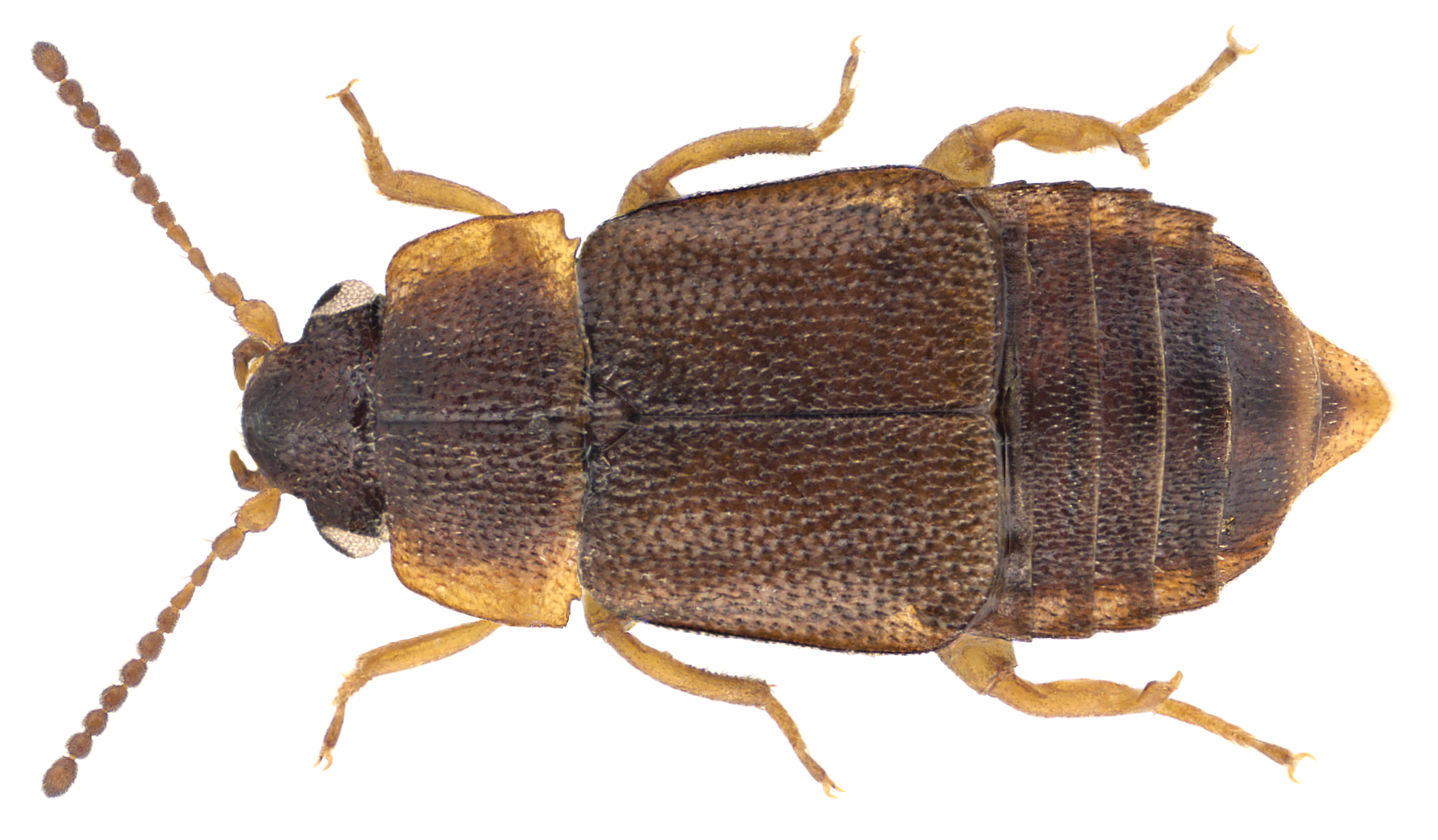 Family: Staphylinidae Size: 2,6 mm (2,1 to 2,7 mm) Distrubution: transpalaearctic Ecology: eurytop, in rotting substrates Location: Germany, Bavaria, Upper Franconia, Selbitz leg.det. U.Schmidt, 22.VII.1972 Photo: U.Schmidt, 2015